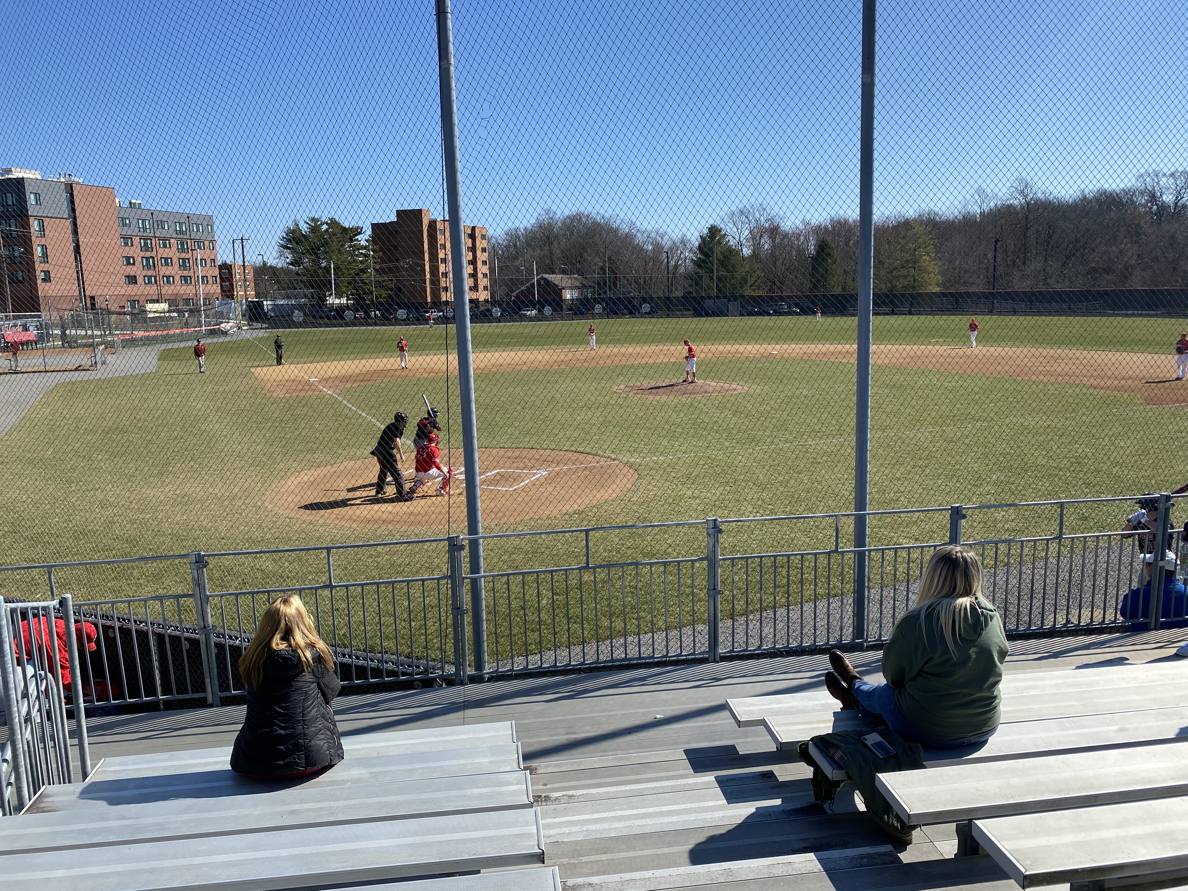 Soldier Field on the campus of Delaware State University in Dover.